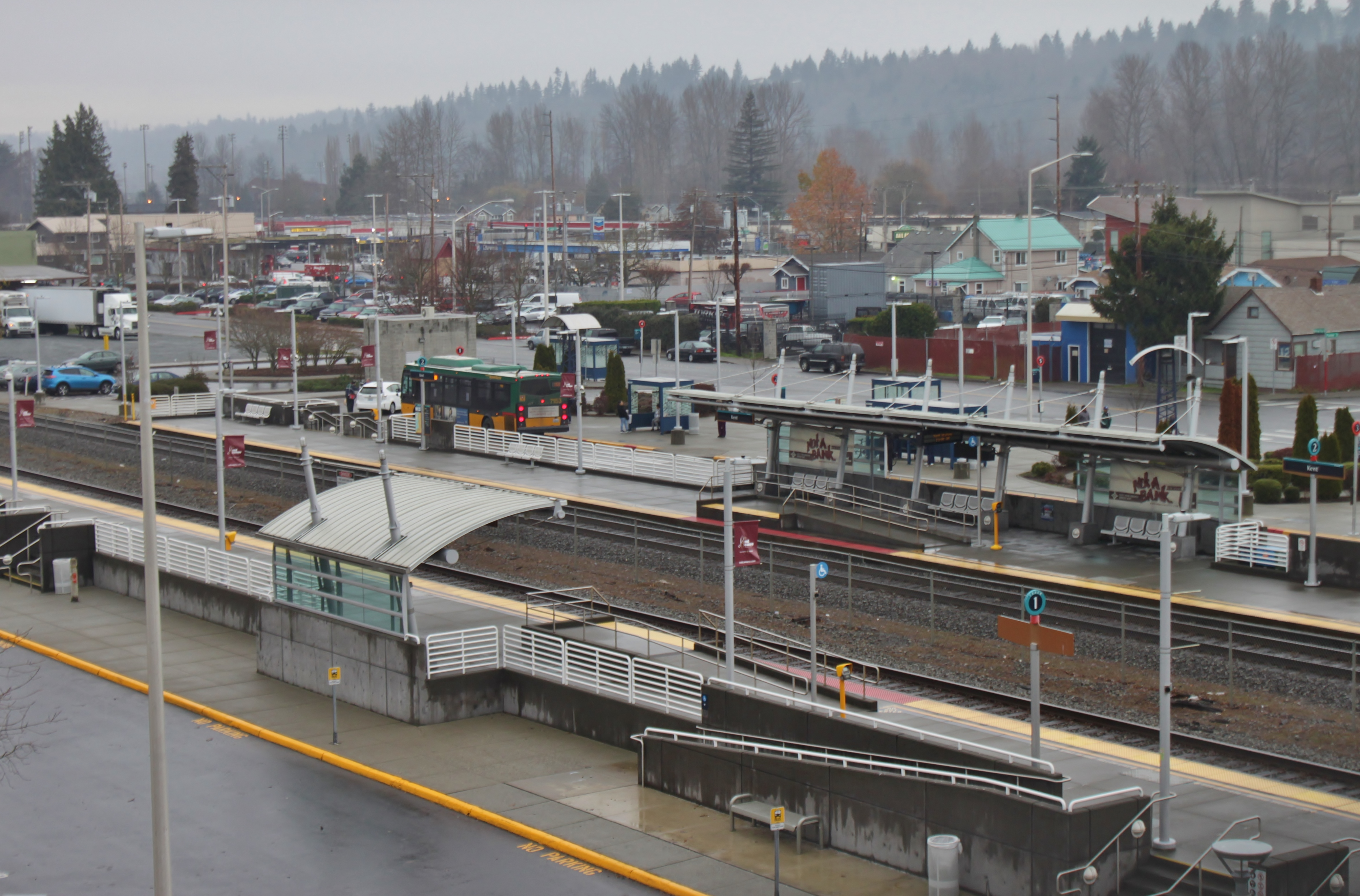 The platforms and bus bays at Kent Station, a commuter rail station and transit center in Kent, Washington, US, seen from its pedestrian bridge.